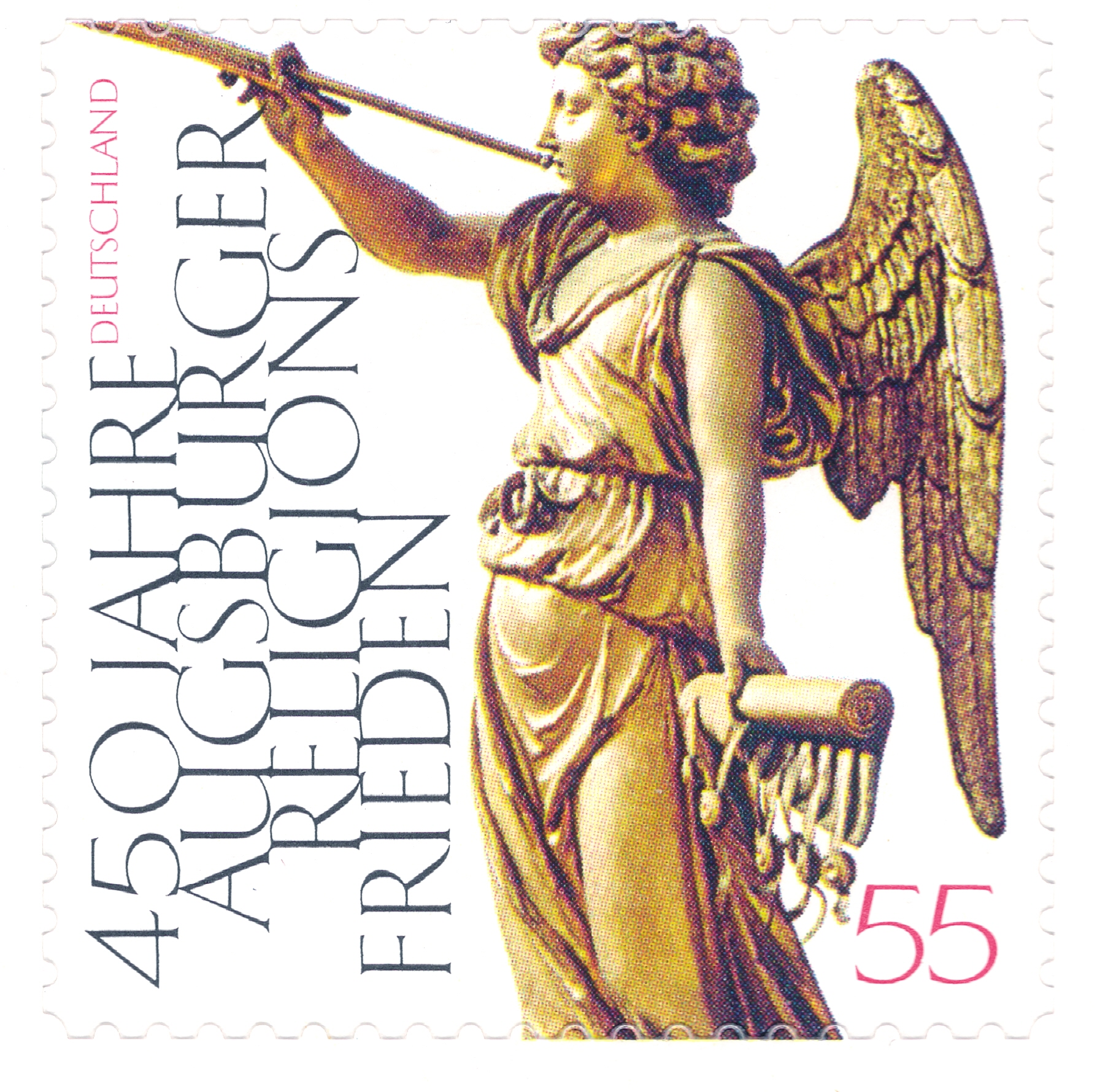 2005 stamp from Germany “450 Jahre Augsburger Religionsfrieden” - self-adhesive, scanned from postage stamp booklet